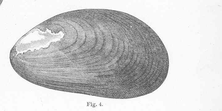 Black Horse Mussel, Modiola nigra Subject: Mussels, Modiola Tag: Shellfish